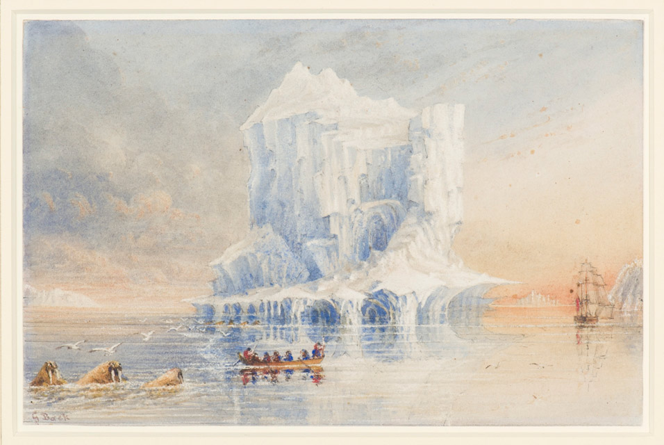 Painting by Admiral Sir George Back (–1878) Alternative names Admiral Sir BackDescriptionBritish naval officer, explorer and artistDate of birth/death 6 November 1796 / 6 November 1795 23 June 1878Location of birth/death Stockport, Cheshire Portman Square, LondonAuthority control : Q282922 VIAF: 76464117 ISNI: 0000 0001 2282 0796 ULAN: 500076997 LCCN: n89613186 Open Library: OL495207A WorldCat creator QS:P170,Q282922 shows HMS Terror anchored near a cathedral-like iceberg in the waters around Baffin Island, while a smaller boat is rowed nearby